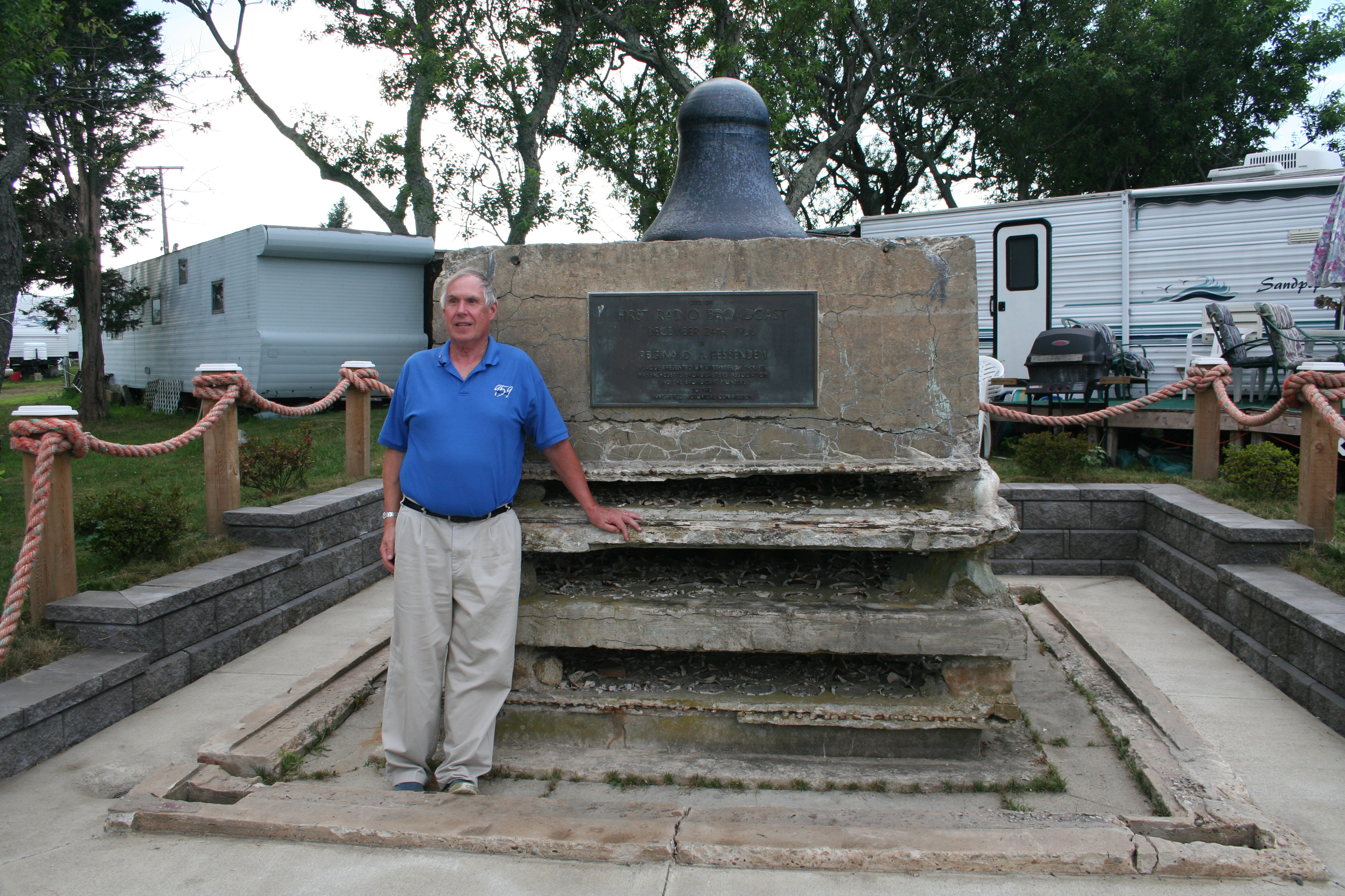 This photo shows the base of Reginald Fessenden's antenna at Brant Rock, Massachusetts. Edward F. Perry, Jr., owner of WATD-FM in Marshfield, is standing next to the plaque. The tower that once stood here was used for the first intentional broadcast of audio over a radio transmitter, on December 24, 1906.